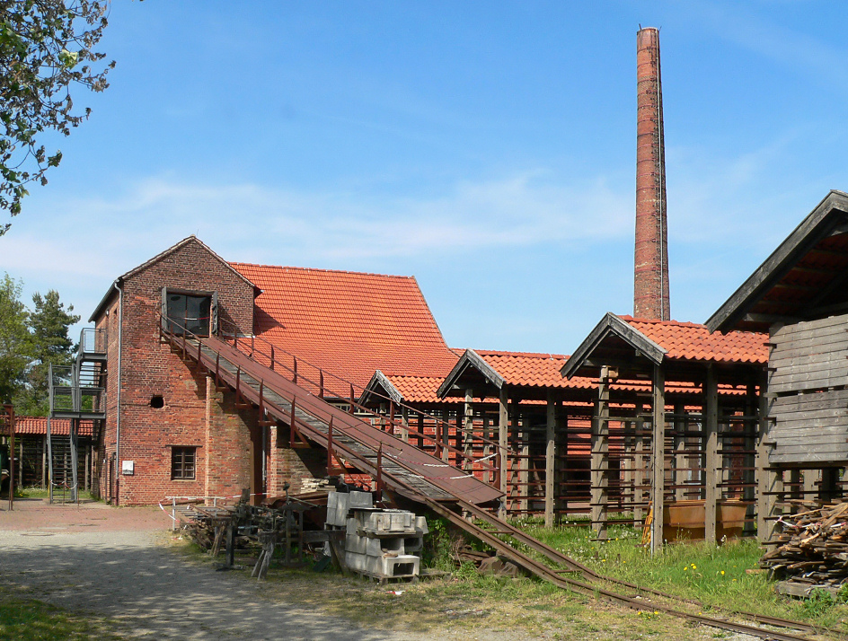 Lage Brickyard near the town of Lage, District of Lippe, North Rhine-Westphalia, Germany. The 1909 built Lage Brickyard is part of the European Route of Industrial Heritage.